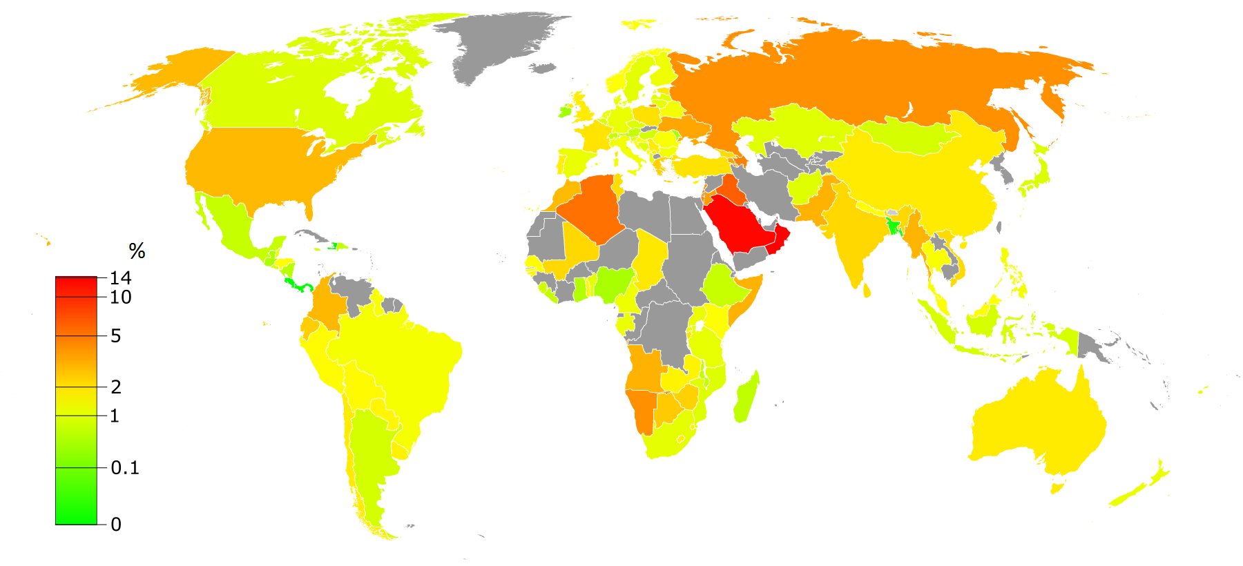 Military expenditure as percentage of the gross domestic product (GDP).